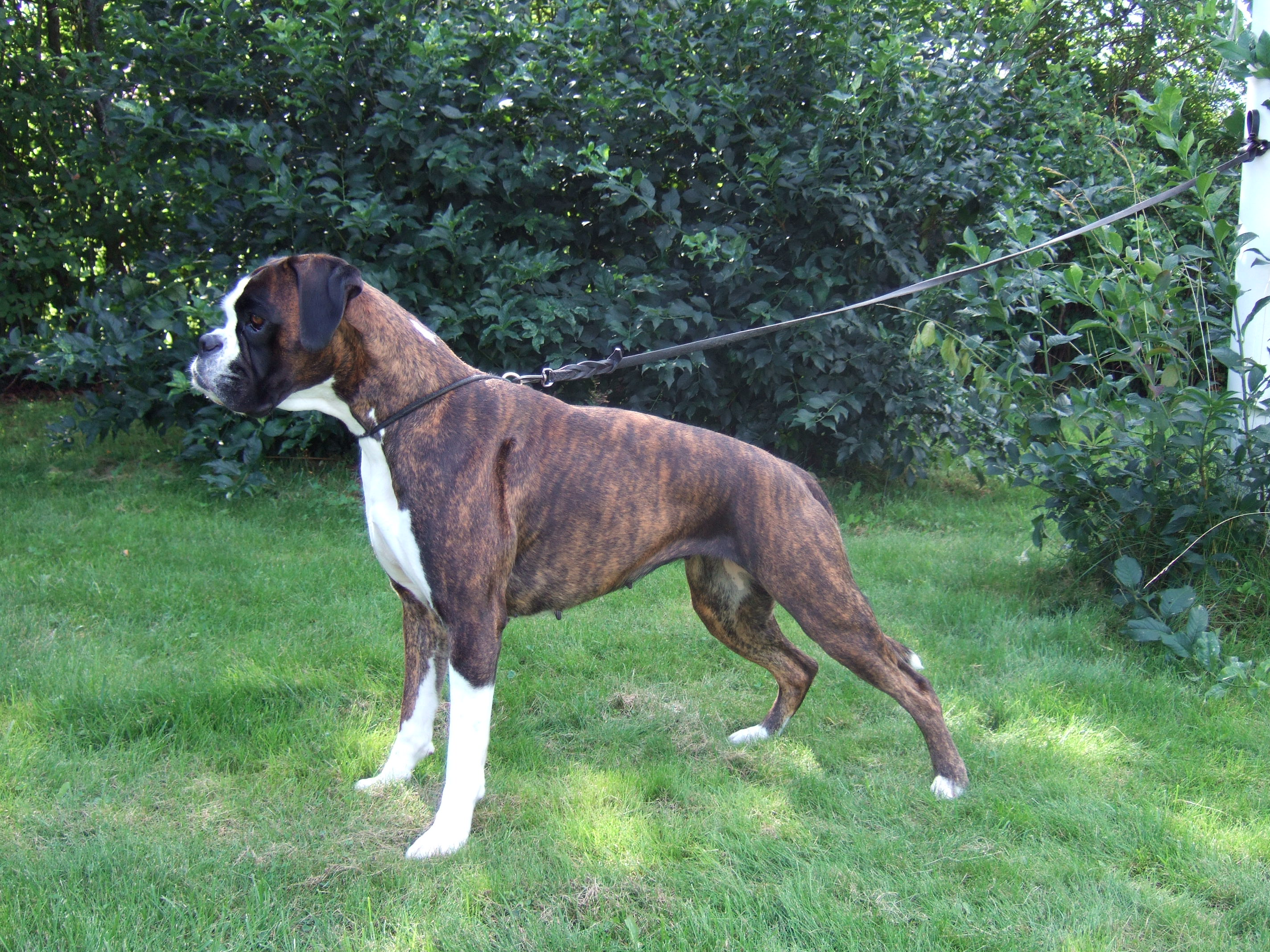 Brindle boxer female